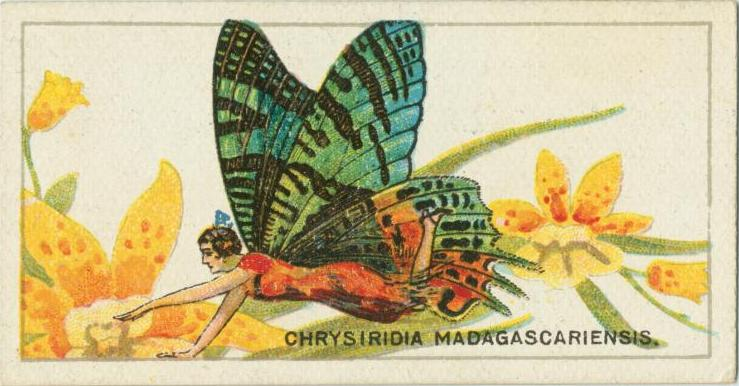 Chrysiridia rhipheus Cigarette card